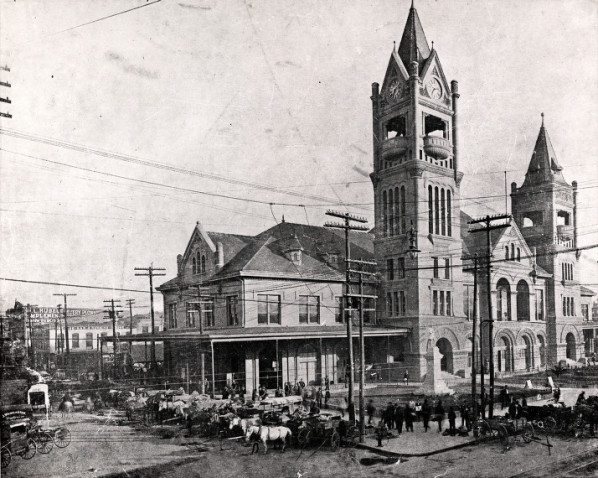 The City Hall and Market House, located on Travis Street at Prairie Avenue, was shared by the Houston city government and the city market. The building was designed by George E. Dickey in 1904. The image also shows pedestrians and numerous horse-drawn wagons.